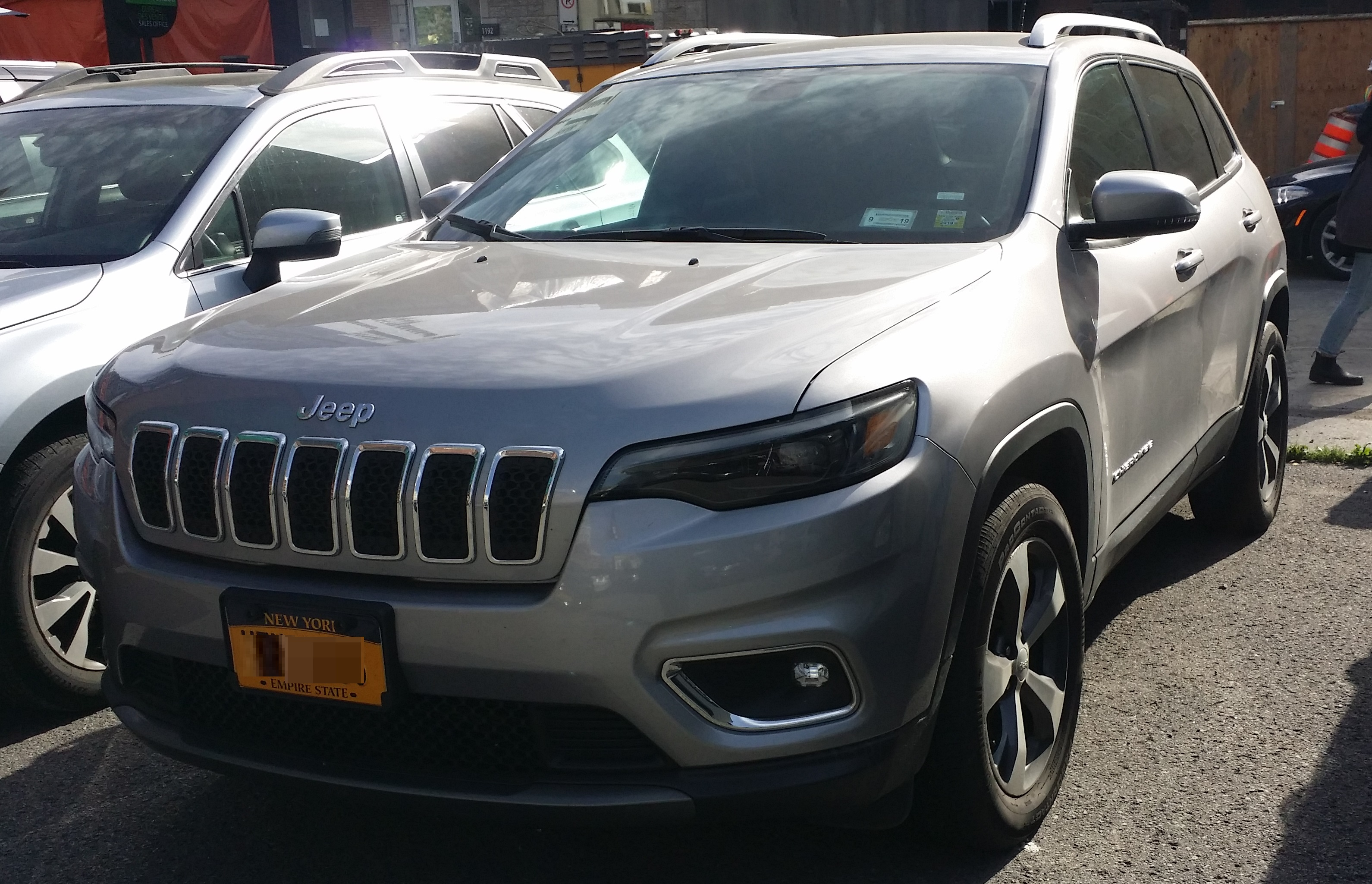 2019 Jeep Cherokee photographed in Montréal, Québec, Canada.